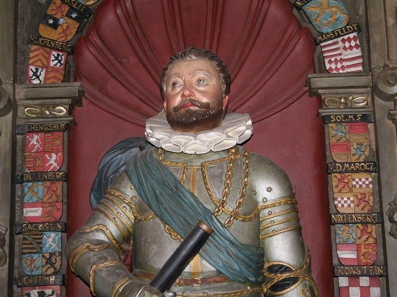 Count Philipp IV of Nassau-Weilburg and Nassau-Saarbruecken (1542-1602), statue from his tomb in the collegiate church of St. Arnual in Saarbruecken